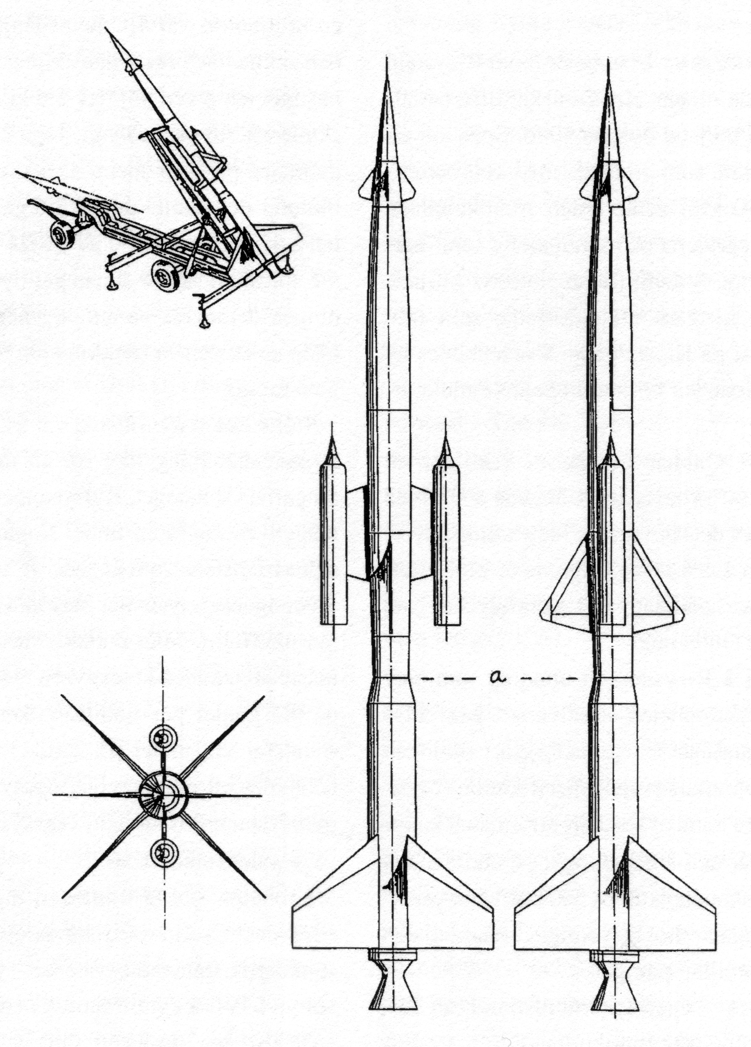 Drawing of the Swedish missile concept Robot 330, never realized.